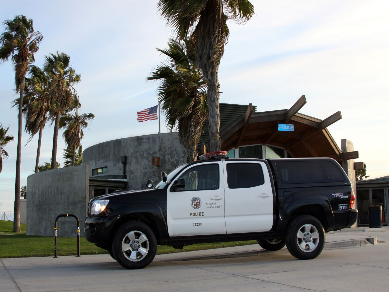 LAPD SUV parked at Venice Beach